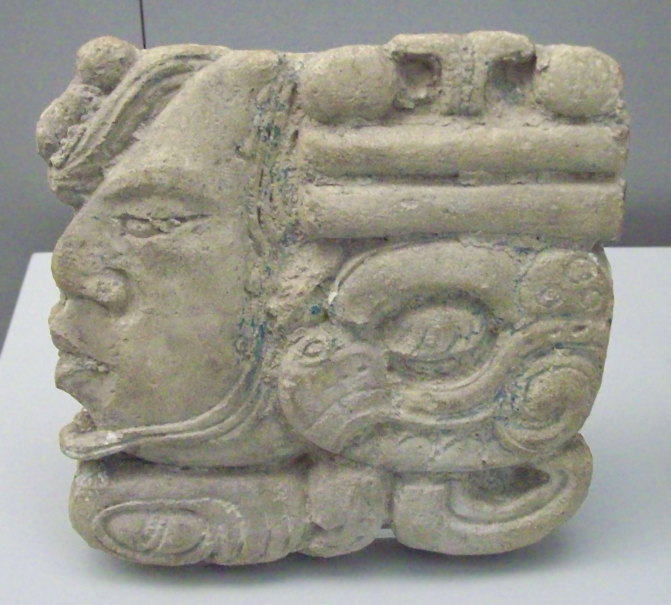 A Maya glyphic cartouche from Palenque (Mexico), found at the east corridor of the Palace's house A.